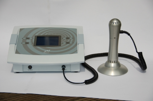 shockwave therapy cellulite system